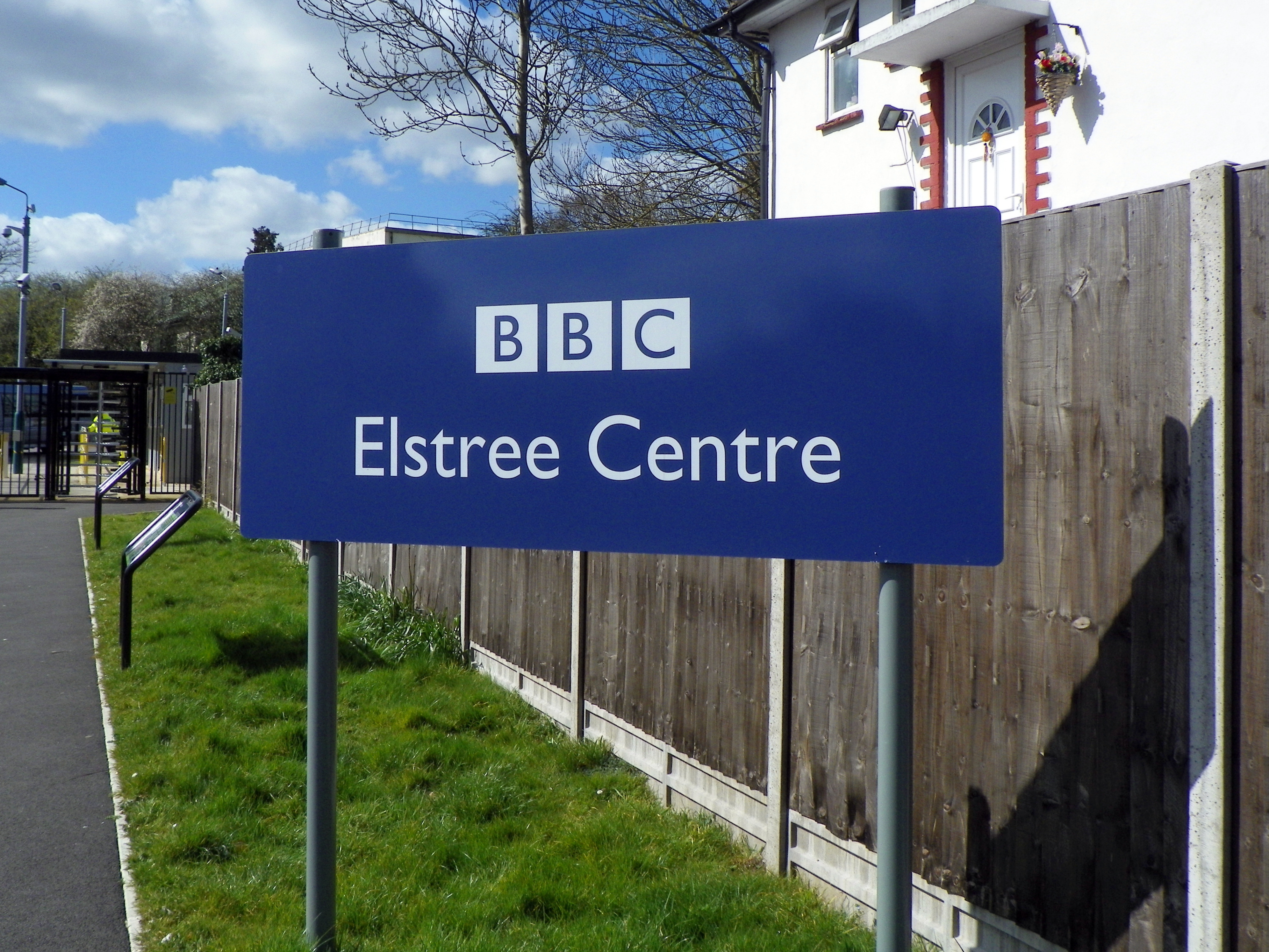 BBC Elstree Centre, Borehamwood, Hertfordshire, 25 March 2016. On 11 March 2017, GOC Hertfordshire held a 9.2 mile walk in and around Borehamwood and Shenley in Hertfordshire. I was due to lead the walk but was unwell and unable to attend, and therefore I couldn't take any photographs on the day. So I'm uploading archive photos from prior tests of the walk as I am unlikely to repeat the event and get a chance to take these photos again. On the day, Martin T led the walk, which was attended by 23 people. You can read the original event report from the final walk , find out more about the Gay Outdoor Club or see my collections .